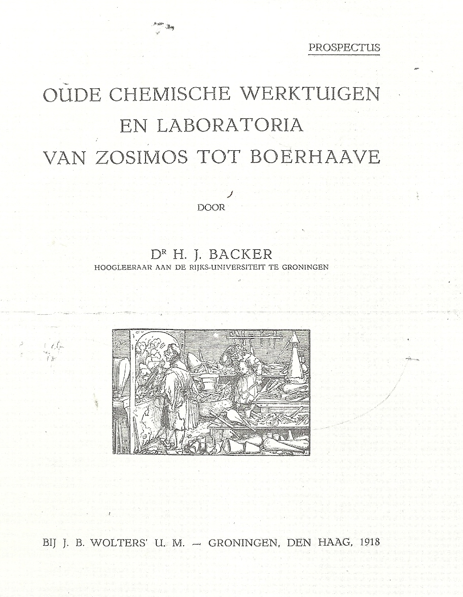 Advertentie boekje professor Backer